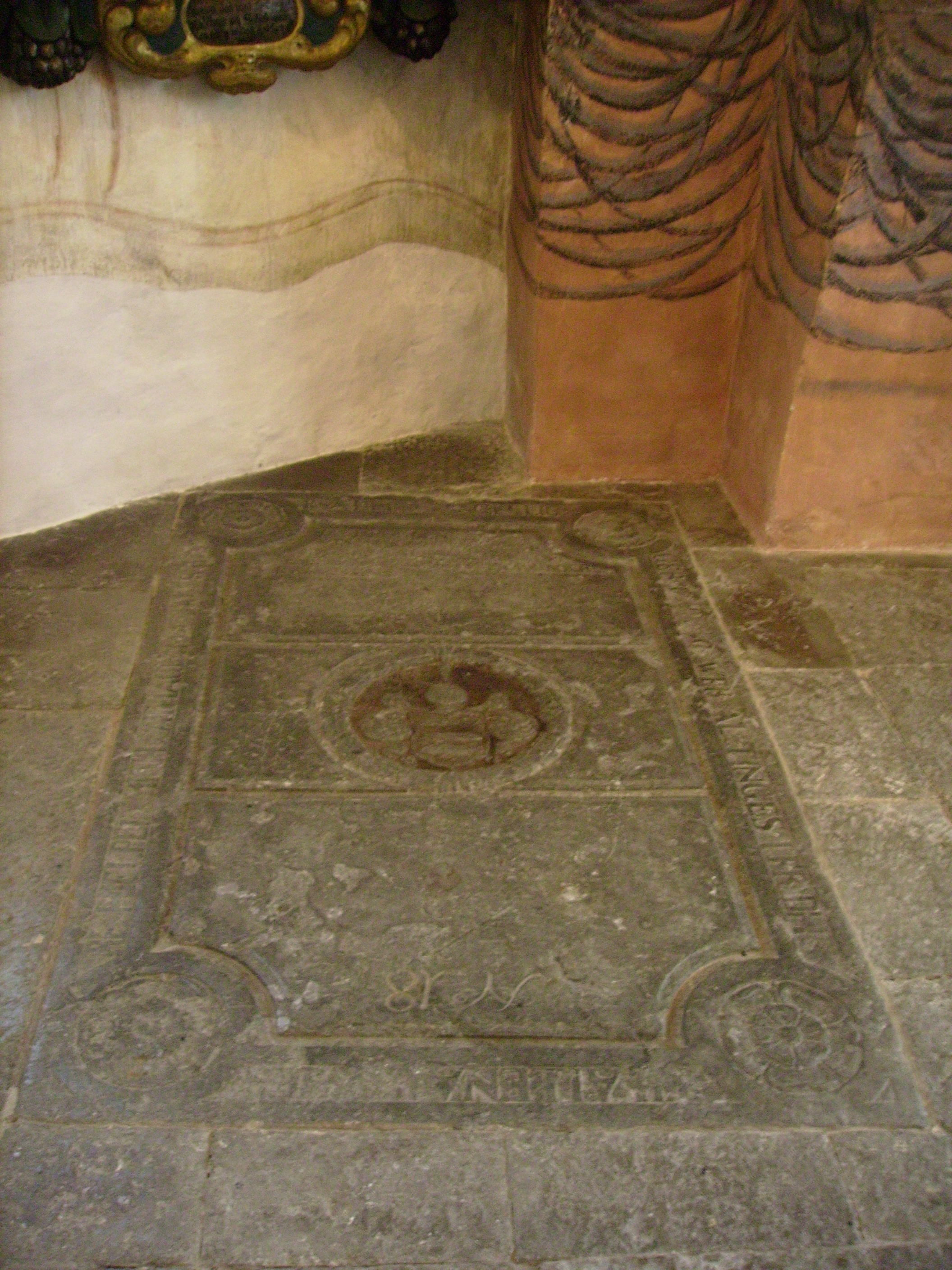 Picture of Gillis de Besche's grave at Alla Helgona kyrka in Nyköping